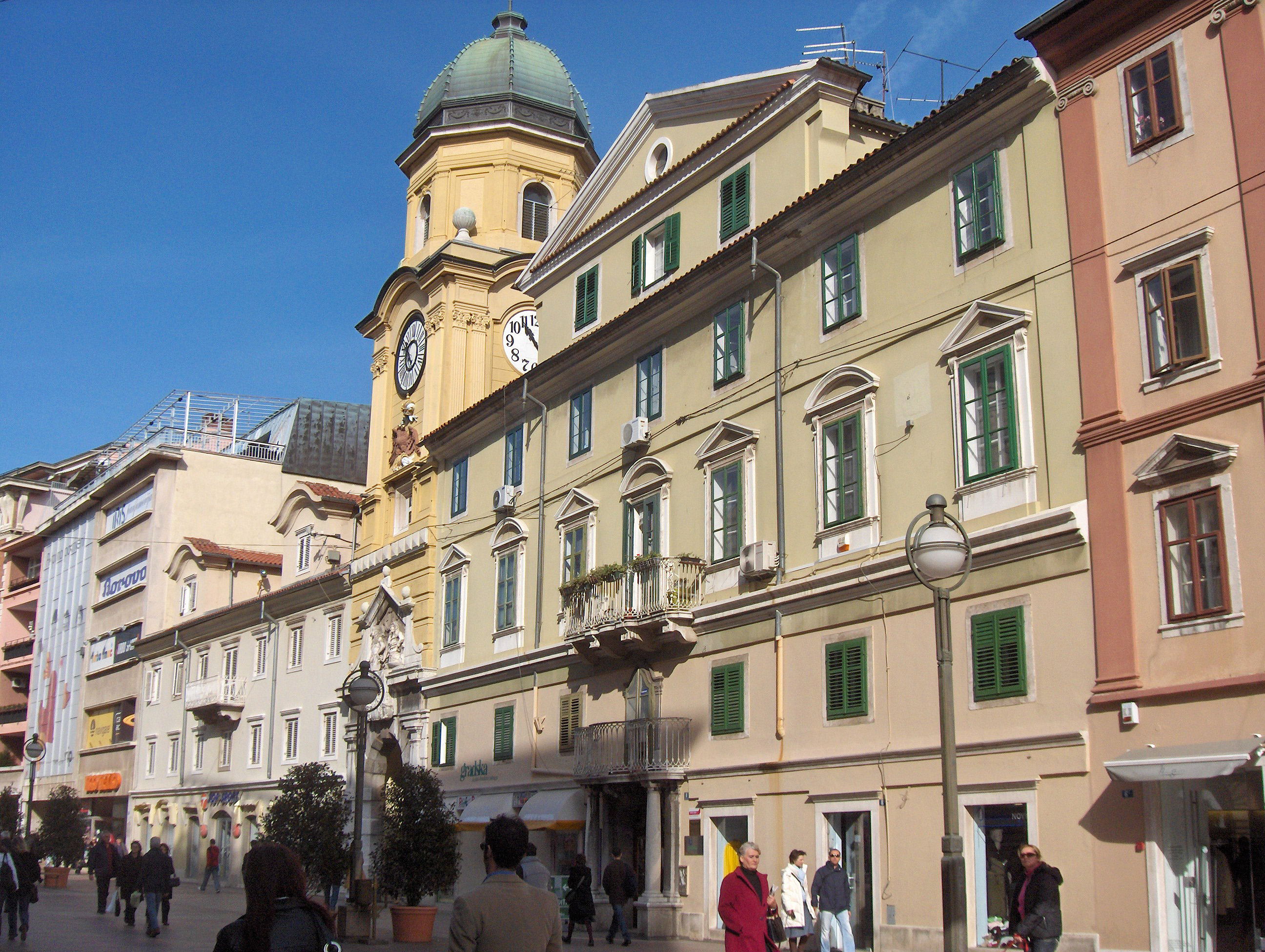 City tower (Korzo str, 10) and Palace Wohinz (Korzo str., 8) on Korzo street in Rijeka, Croatia